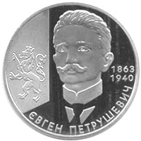 Coin of Ukraine